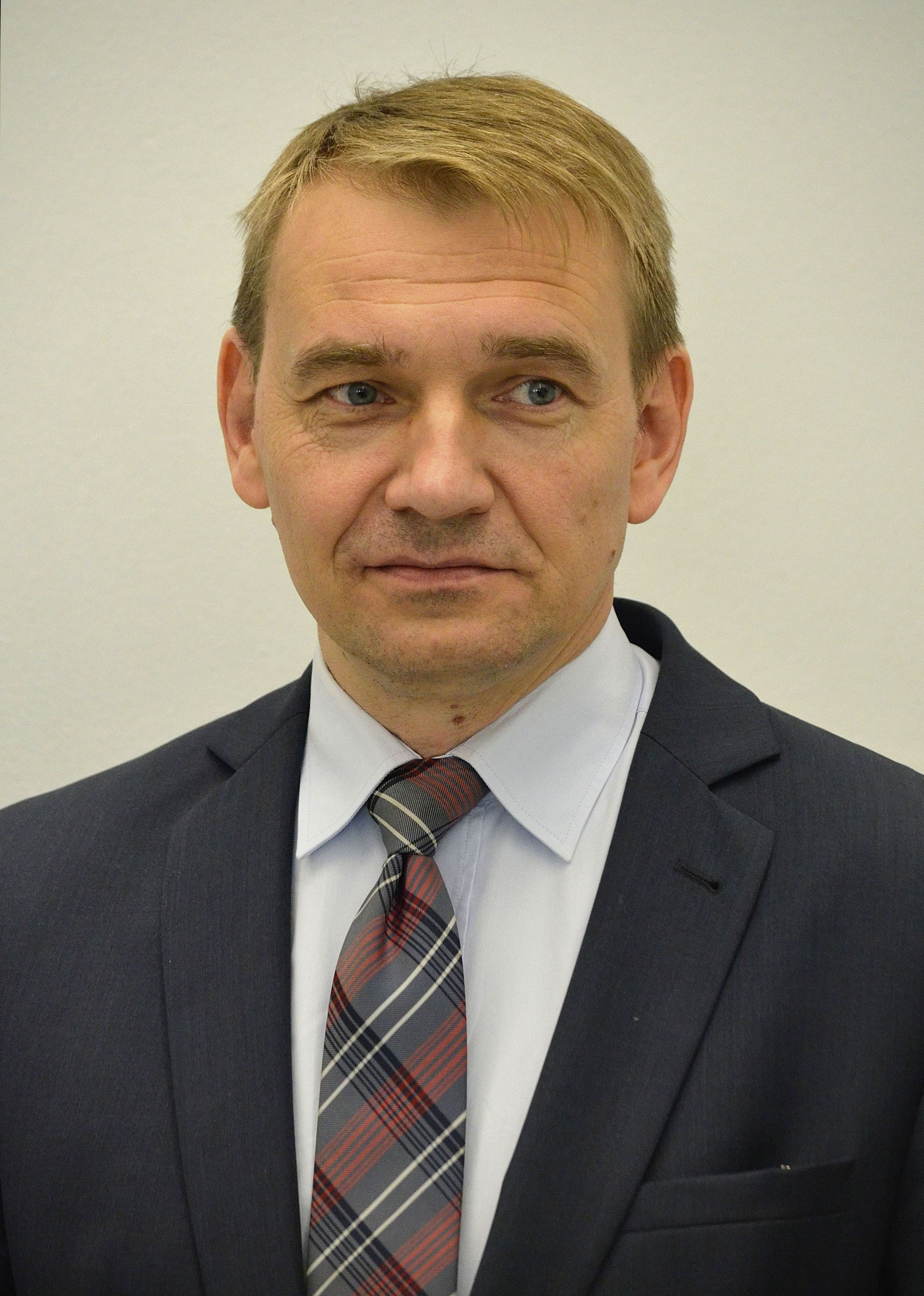 Polish MP Jerzy Bielecki in the Sejm